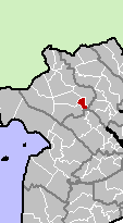 Long Xuyen District, An Giang Province, Vietnam.